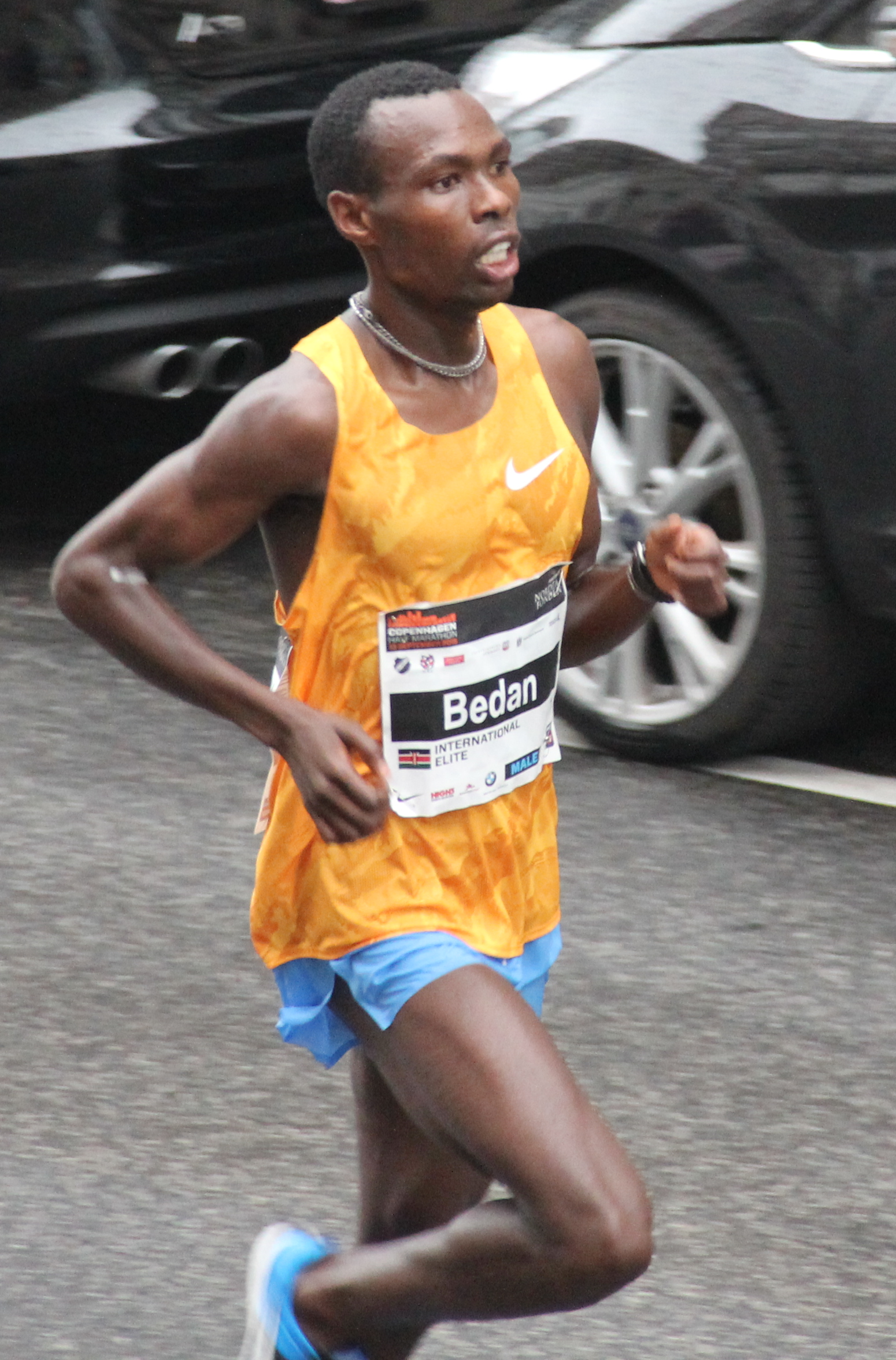 Half marathon Sep 13 2015 at 19.5 km Bedan Karoki Muchiri